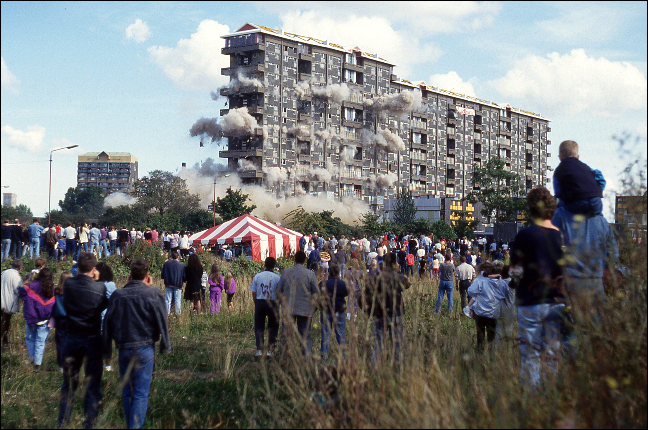 Demolition of the Queen Elizabeth Square flats in Hutchesontown, a district in the city of Glasgow, Scotland This picture appears in Concretopia: A Journey Around the Rebuilding of Postwar Britain by John Grindrod. (Published, November 2013)